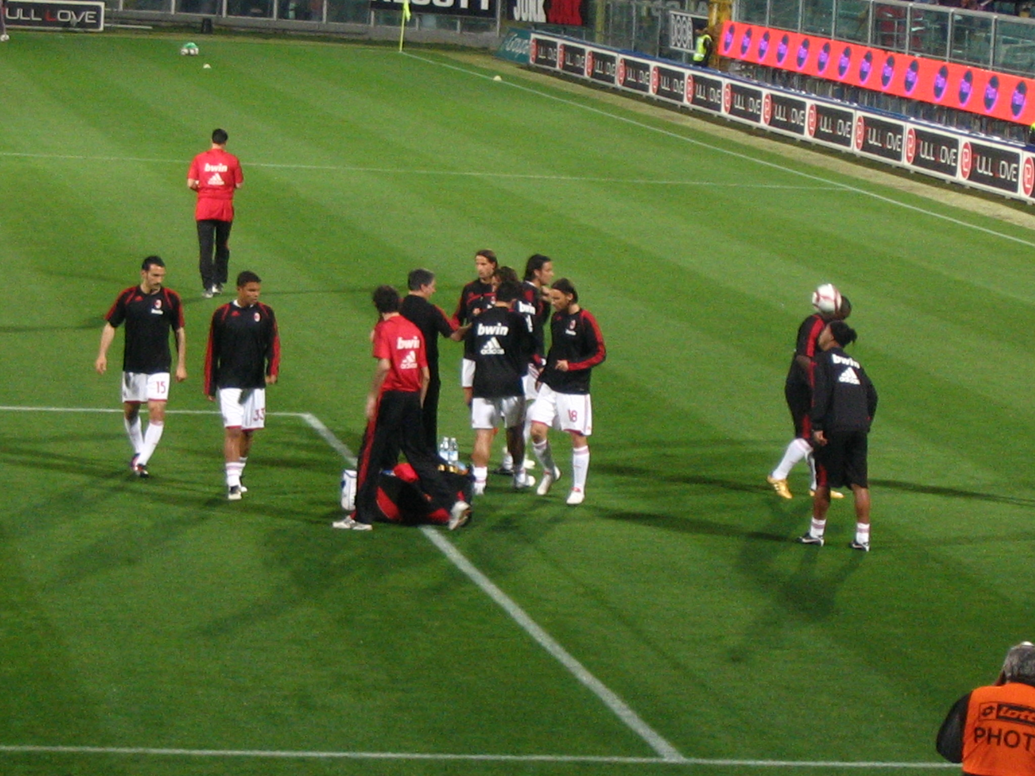 AC Milan before Palermo-Milan, Serie A 2009-2010